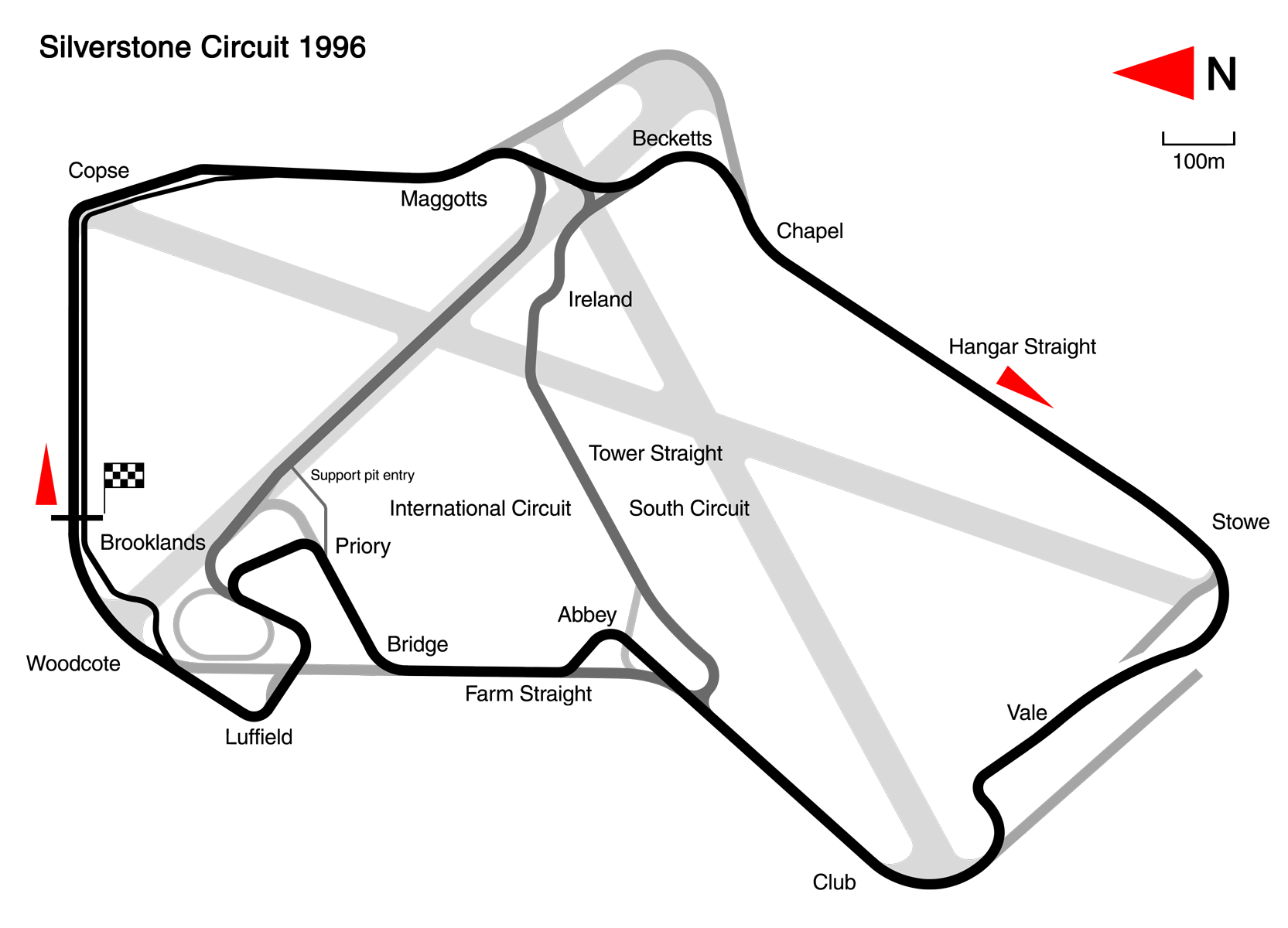 Track diagram of Silverstone Circuit in the UK in 1996 configuration. Made to scale from aerial photographs.